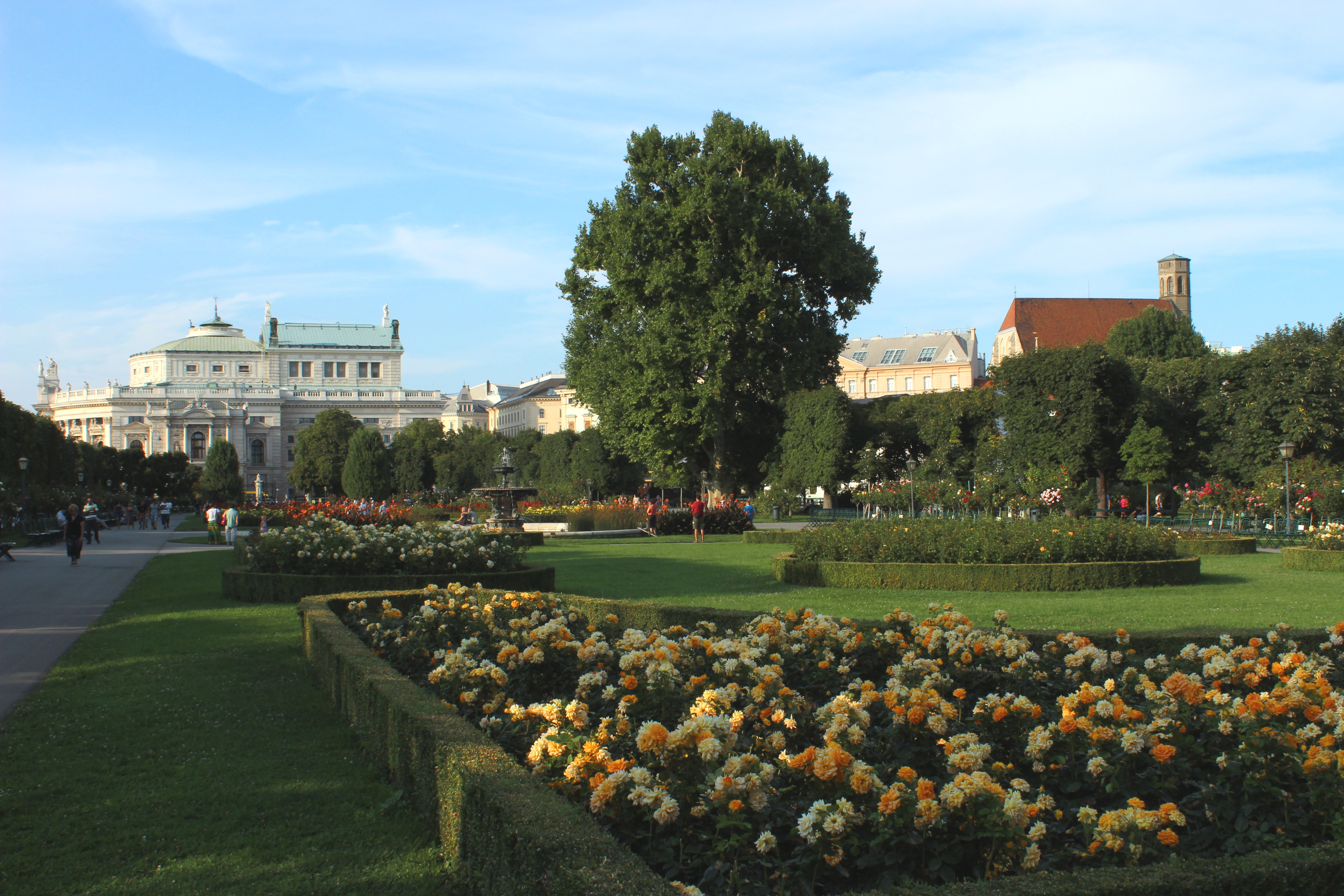 The rose garden in the Volksgarten in Vienna. Foreground: Rosa 'Goldelse' Background: Burgtheater (left) and Minoritenkirche (right).